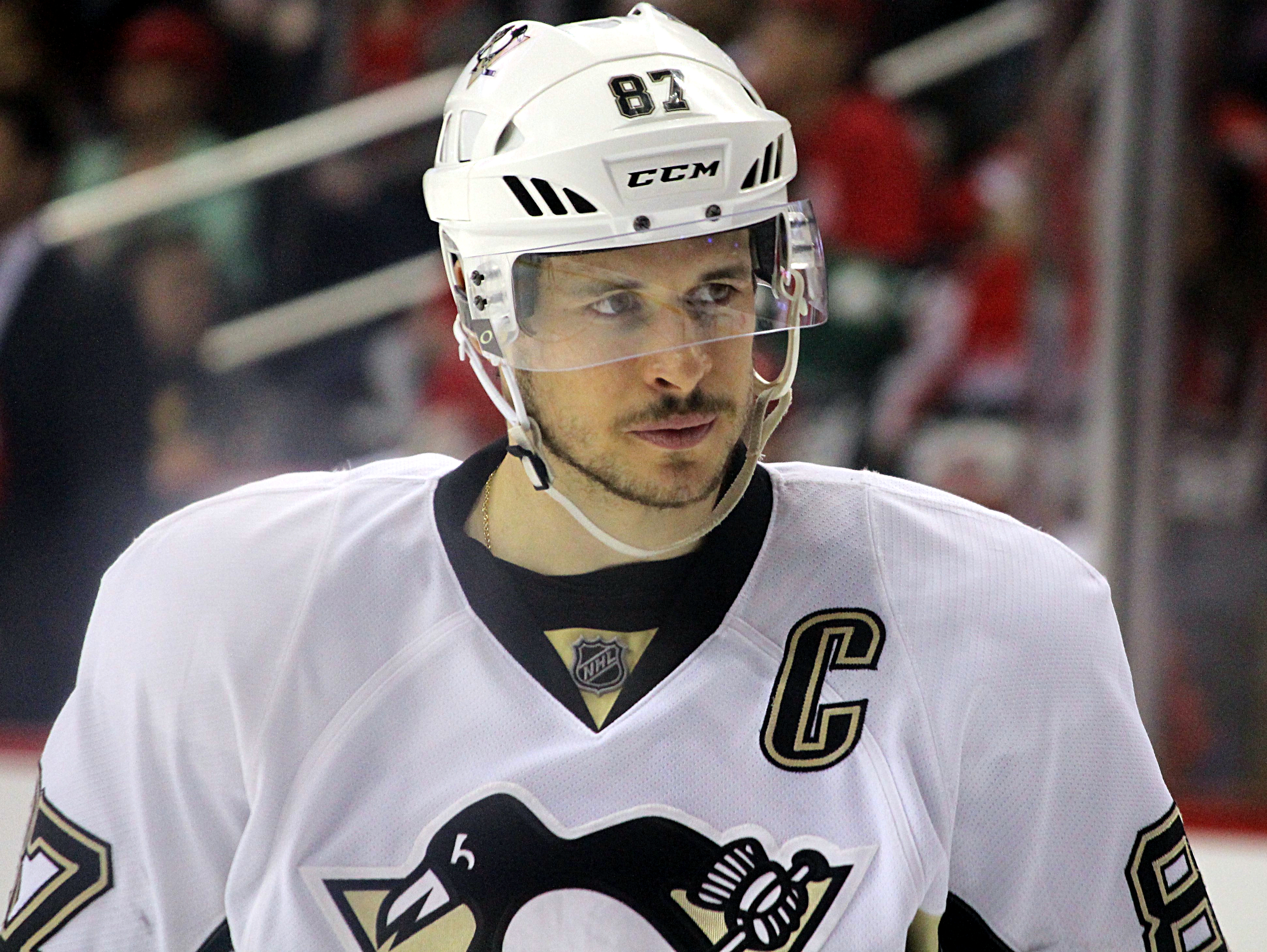 Pittsburgh Penguins captain Sidney Crosby during a game against the Washington Capitals, Thursday, April 7, 2016 at Verizon Center in Washington, D.C.